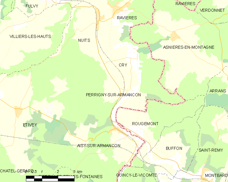 Map of French municipality Perrigny-sur-Armançon